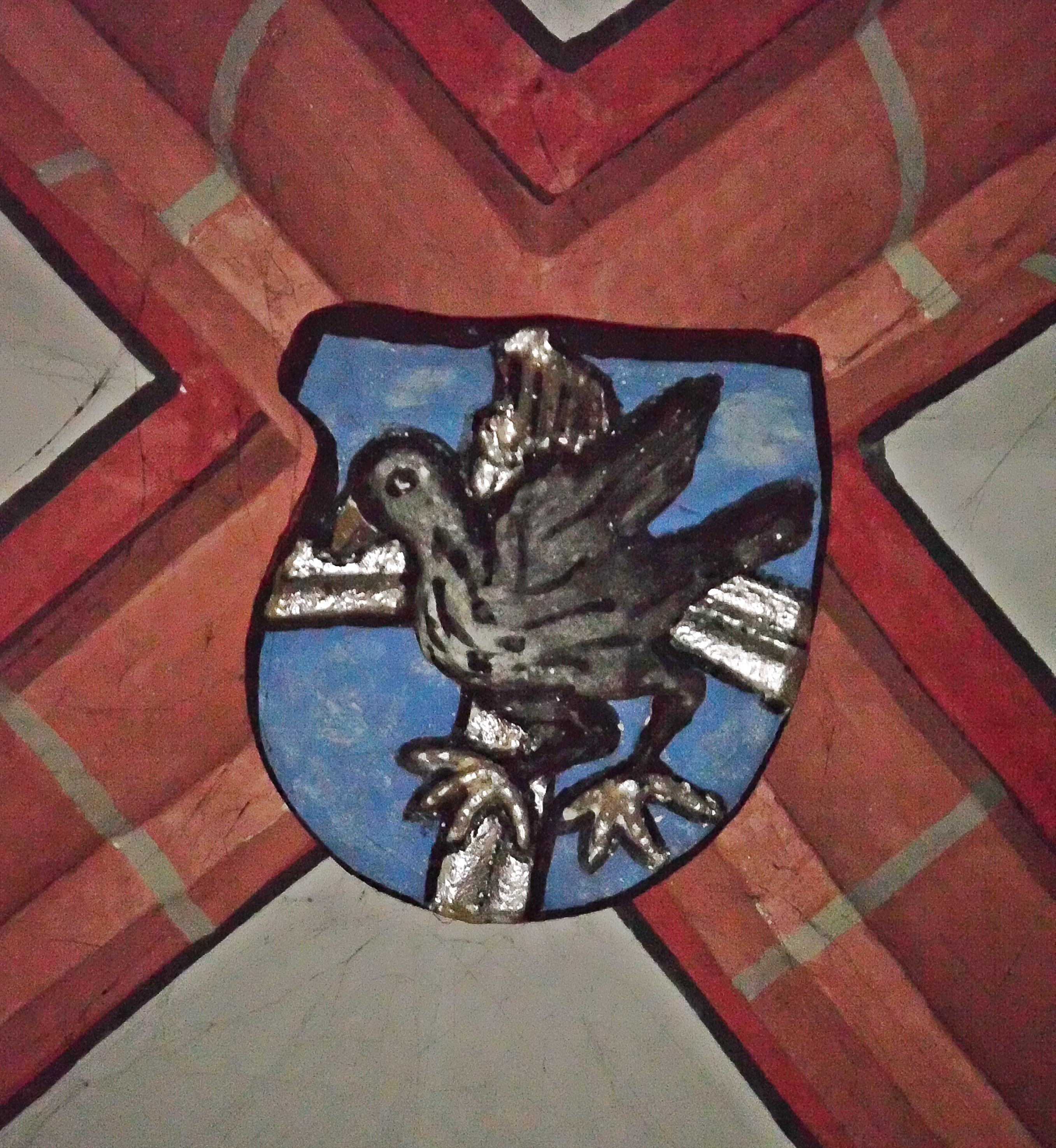 Deidesheim, Pfarrkirche St. Ulrich, Wappenschlussstein des Bischofs Ludwig von Helmstatt